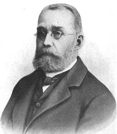 Henry C. Brewster, Congressman from New York